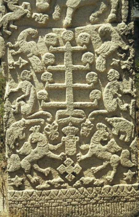 Stone sculpture with motifs of the Dutch Coat of Arms and the skull tree (andung) at Watuhadang